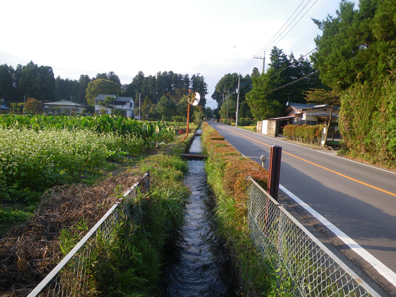 Hikinuma-yōsui aqueduct, at old Niwatoko village, since early Edo period. Nasushiobara, Tochigi, Japan.